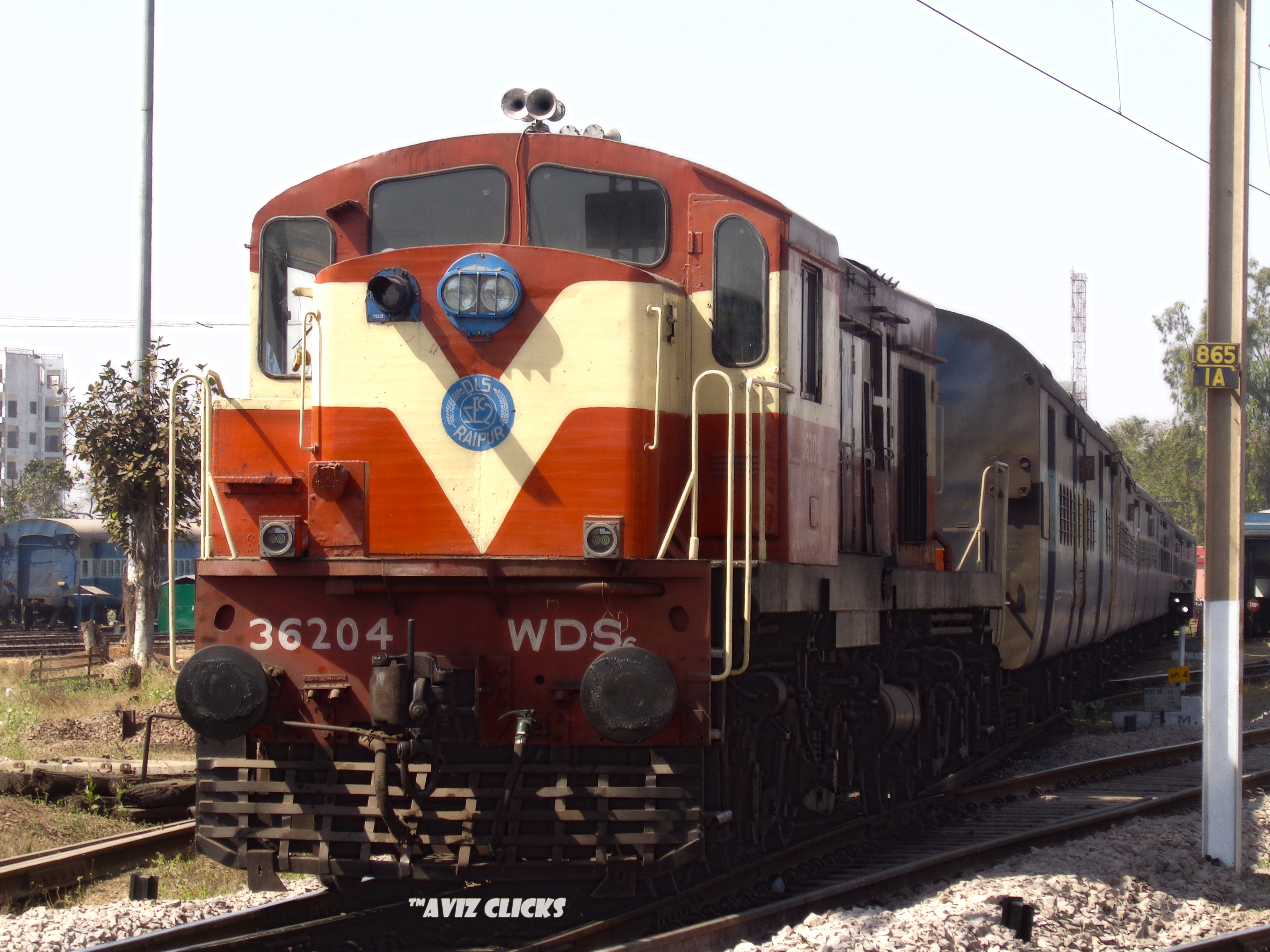 Raipur Shunter doing some shunting jobs at Durg Junction